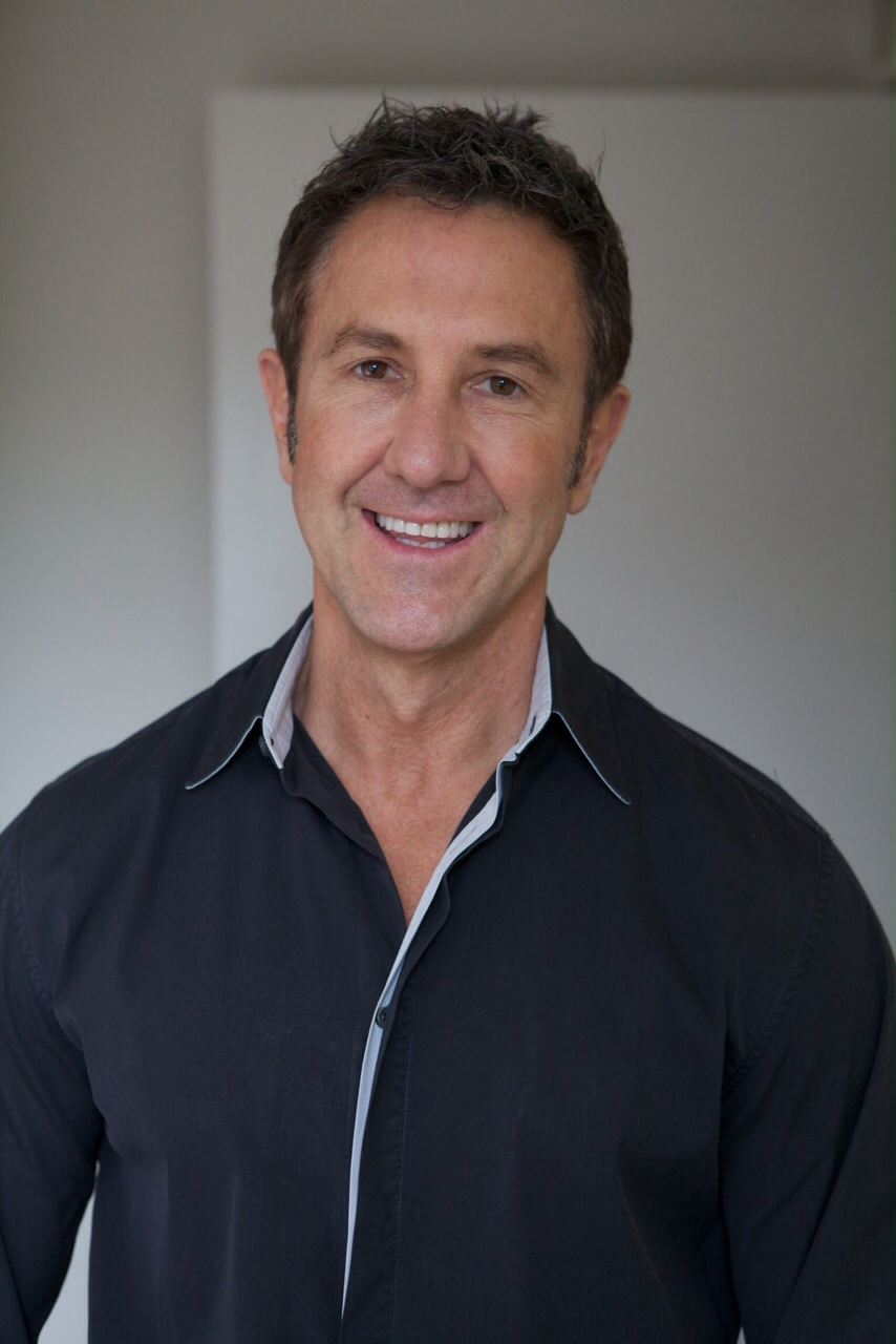 Photograph of Brett Sheehy